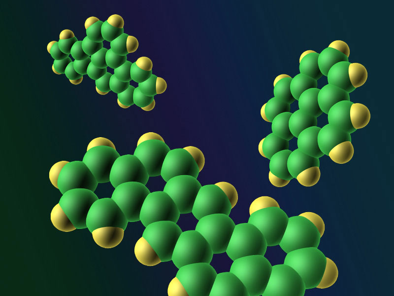 Uploaded from to illustrate the Polycyclic aromatic hydrocarbon article. Lumos3 14:48, 26 June 2006 (UTC)